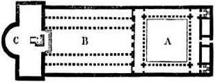 San Paolo Fuori le Mura, Rome, plan.